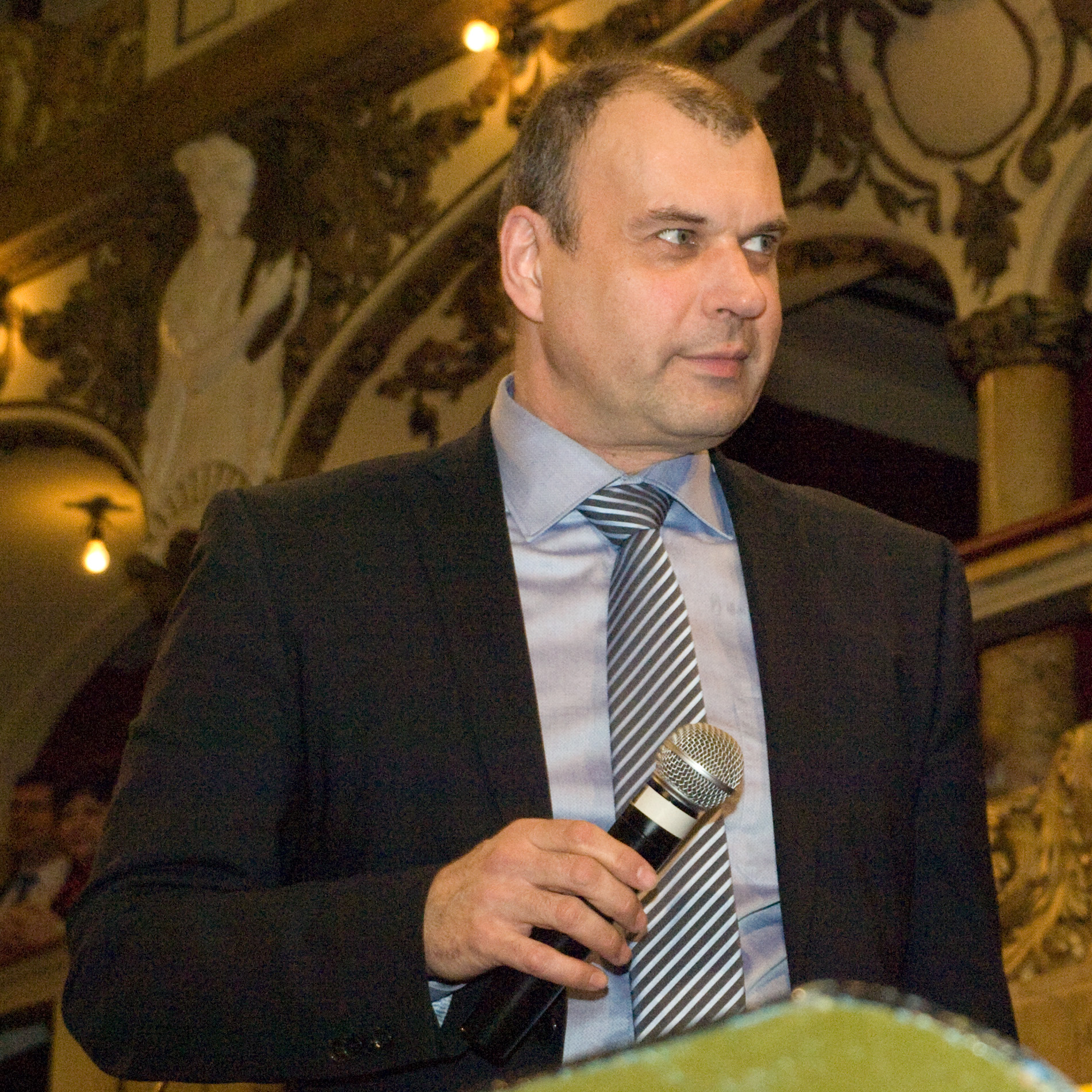 Czech actor and presenter Petr Rychlý